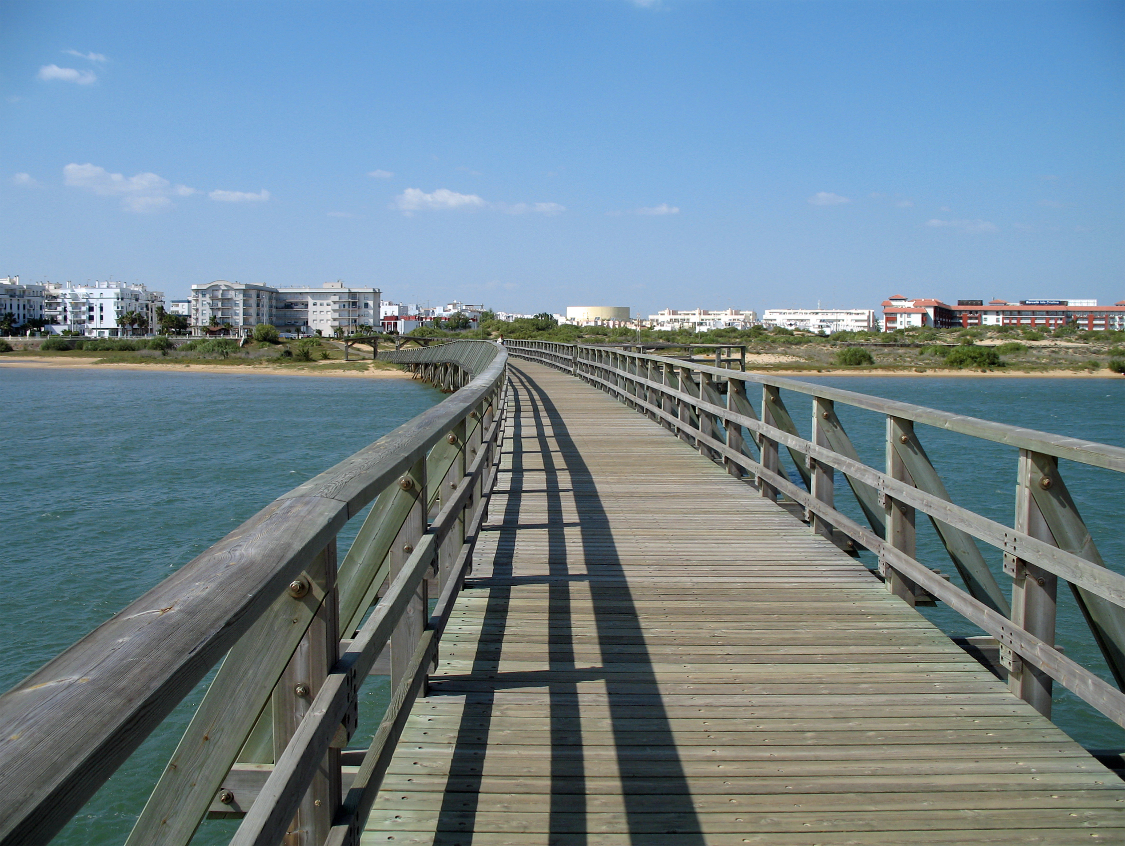 Isla Cristina (province of Huelva, Andalusia, Spain): La Gola footbridge